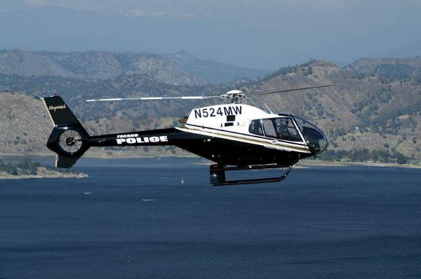 A Eurocopter EC-120 of the Fresno Police Department SkyWatch unit